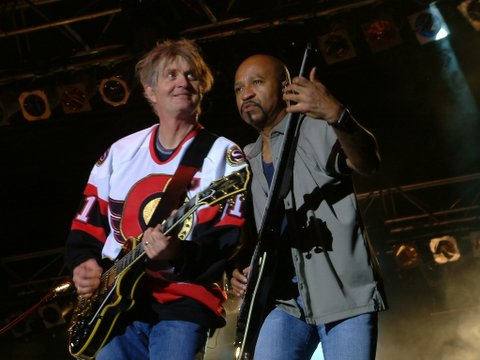 Tom Cochrane May 10 2003 Ottawa Canada Tulip Festival